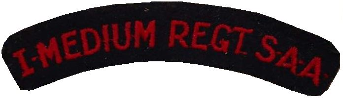 UDF era 1 Medium Regiment SAA shoulder title